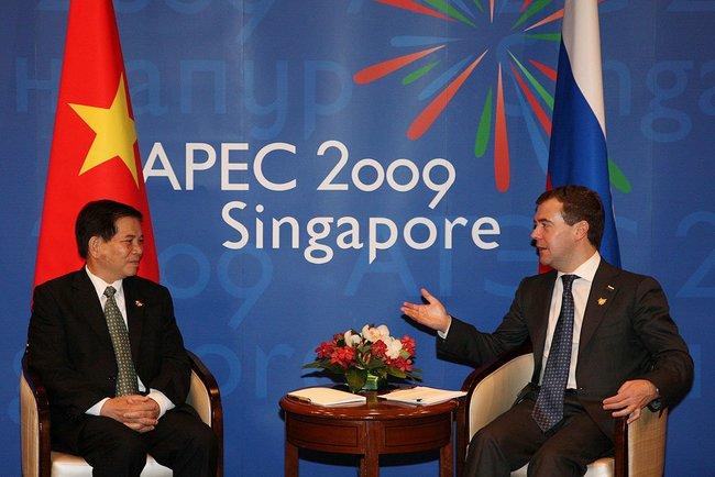 SINGAPORE. With Vietnamese President Nguyen Minh Triet.